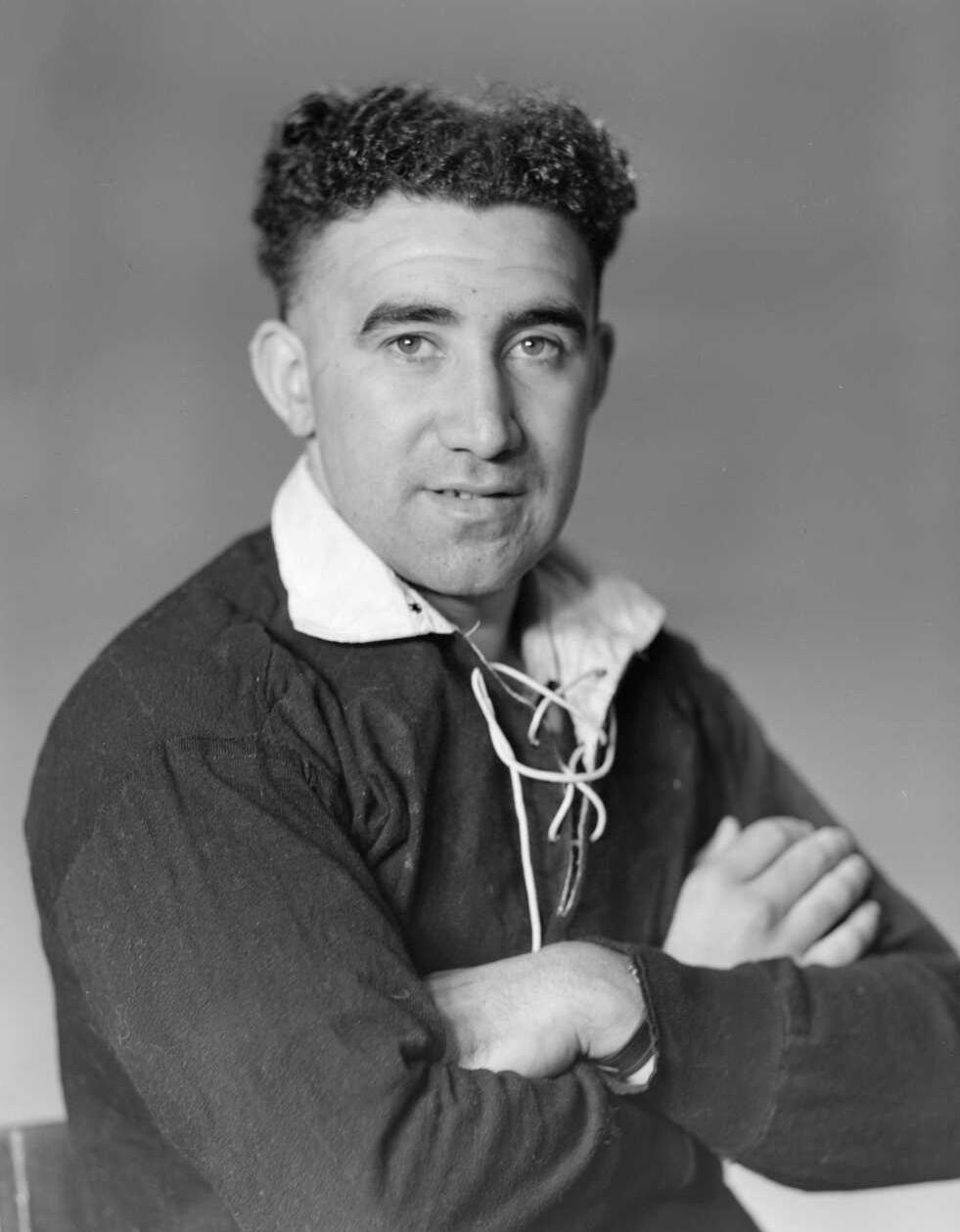 Photograph of Peter Smith in All Black Uniform, taken by Crown Studio Ltd of Wellington.